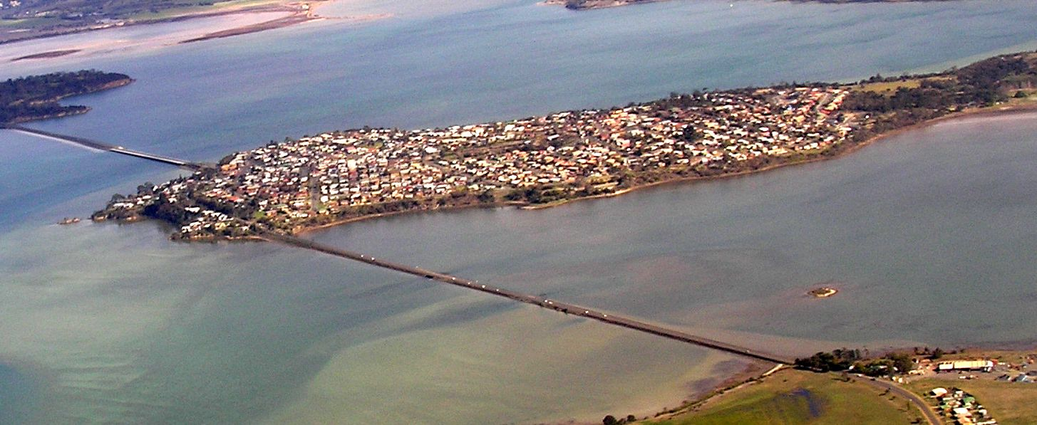 Aerial photo of Midway Point Tasmania from east